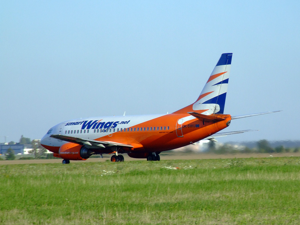 Boeing 737-522 OK-SWU Smart Wings